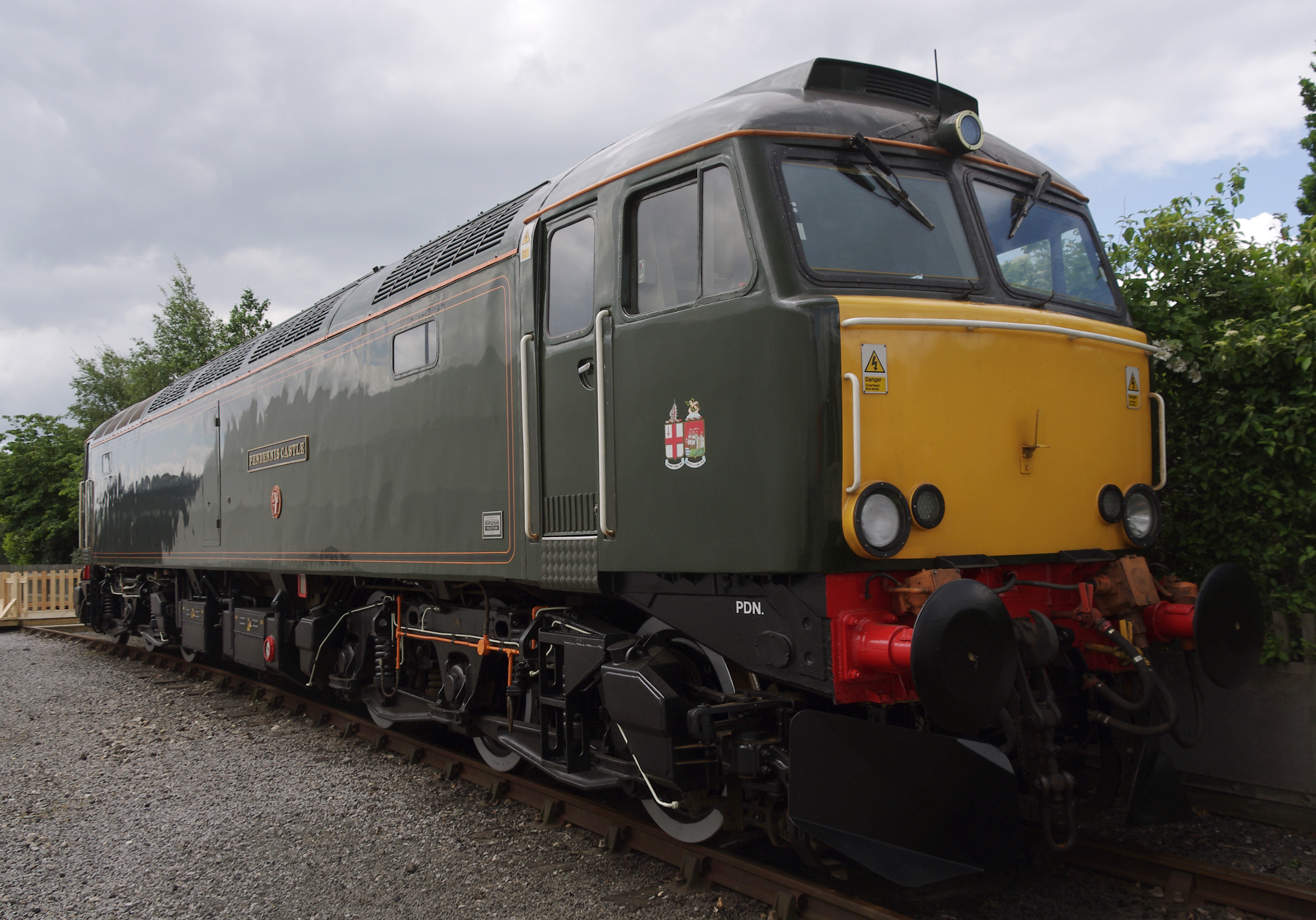 First Great Western class 57 diesel locomotive 57604 "Pendennis Castle" at Railfest 2012.